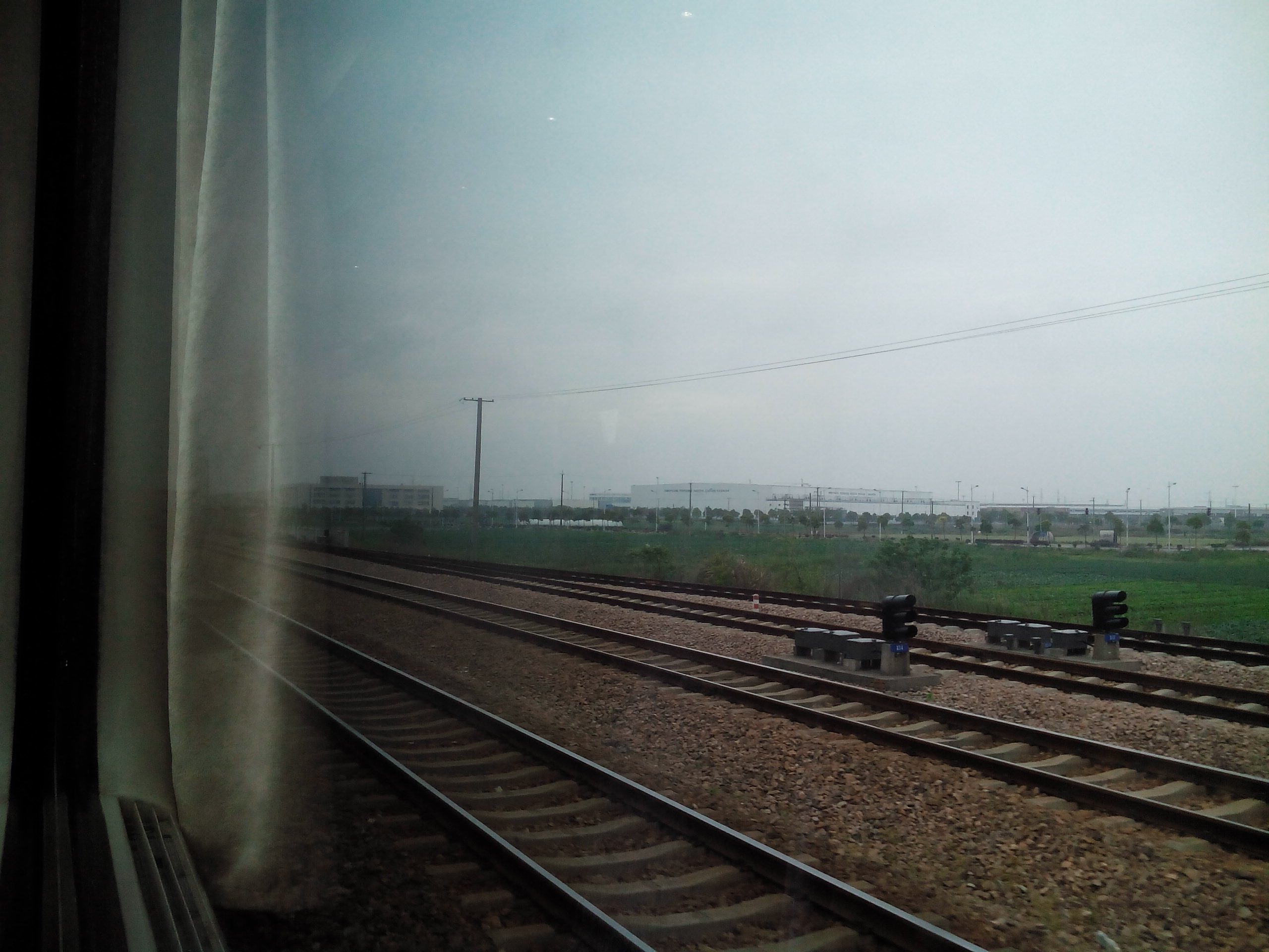 Tracks on Luchaogang Railway Station